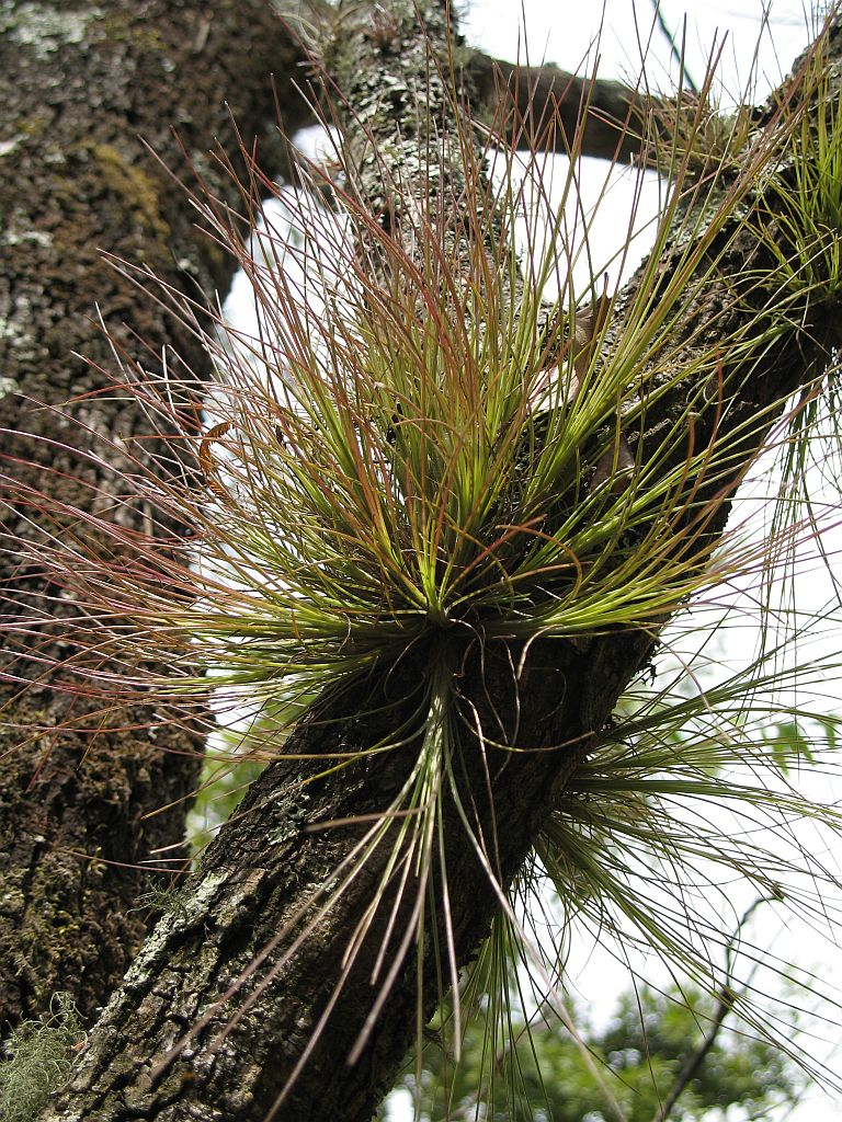 Tillandsia remota in habitat near Esquipulas, Dept. Chiquimula, Guatemala.